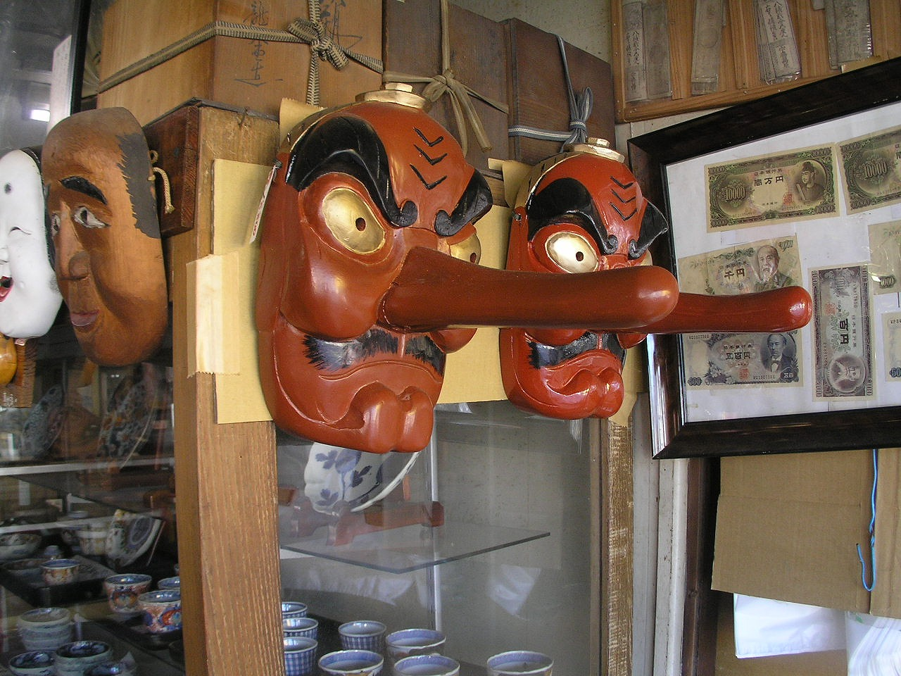 Tengu mask in a souvenir shop